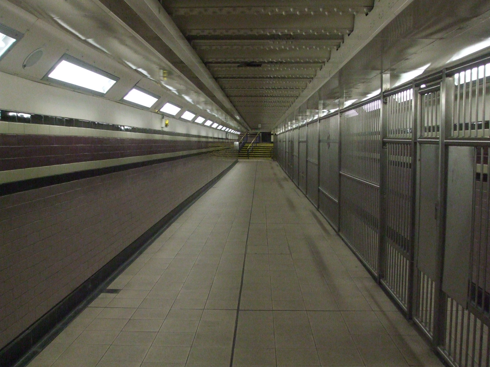 Passageway linking platforms and ticket hall at Arsenal tube station. The segregated area at right is to separate fans attending matches at nearby Arsenal F.C. from other users, with a tidal flow in operation in favour of the fans. View towards ticket hall.